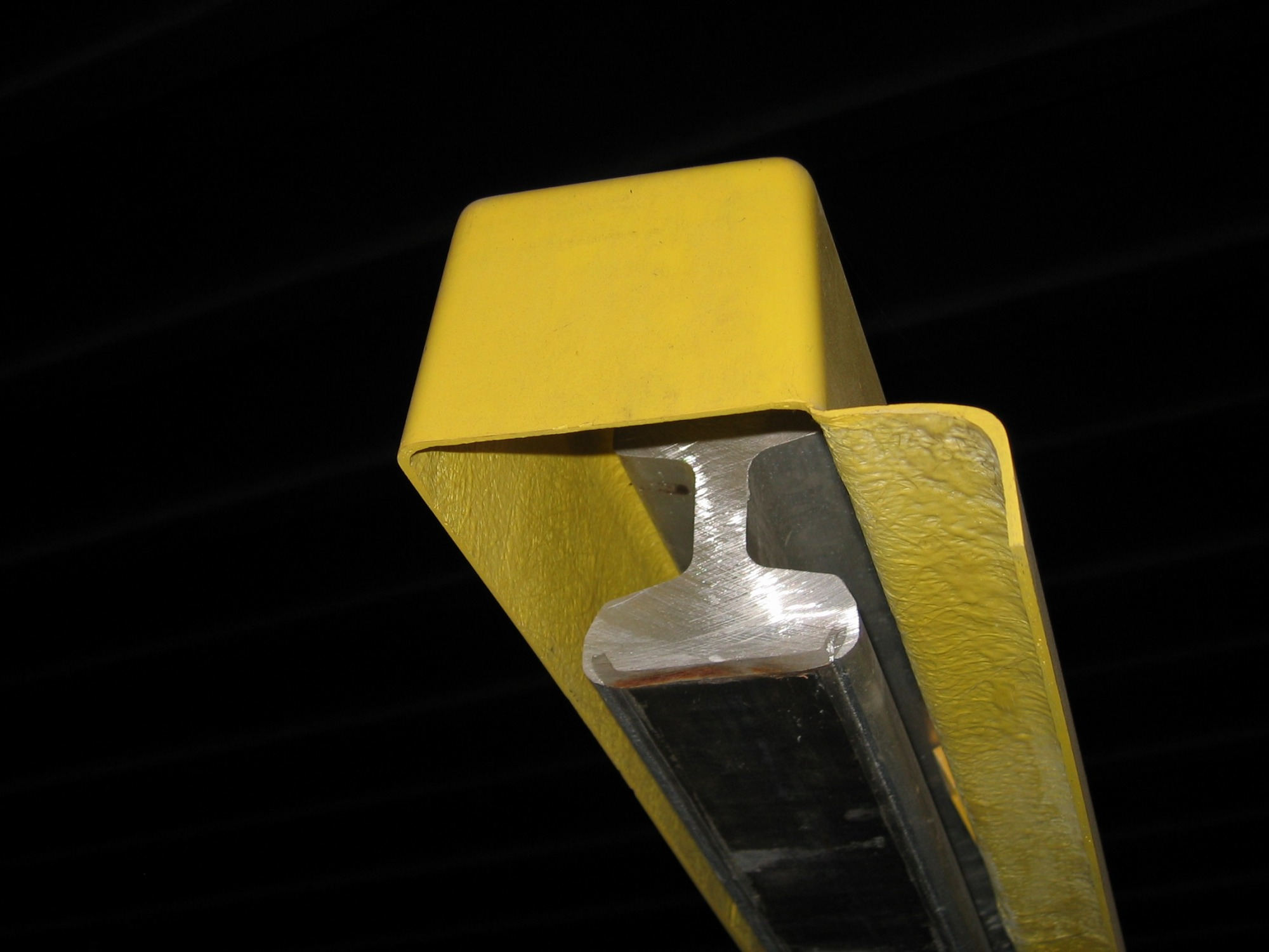 Third rail made of aluminium, the area of contact is covered with steel.